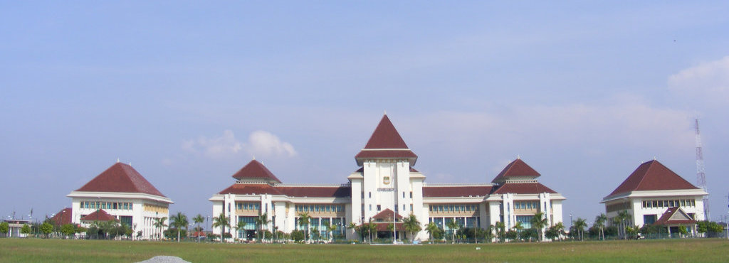 Administration center of Bekasi regency, West Java, Indonesia.